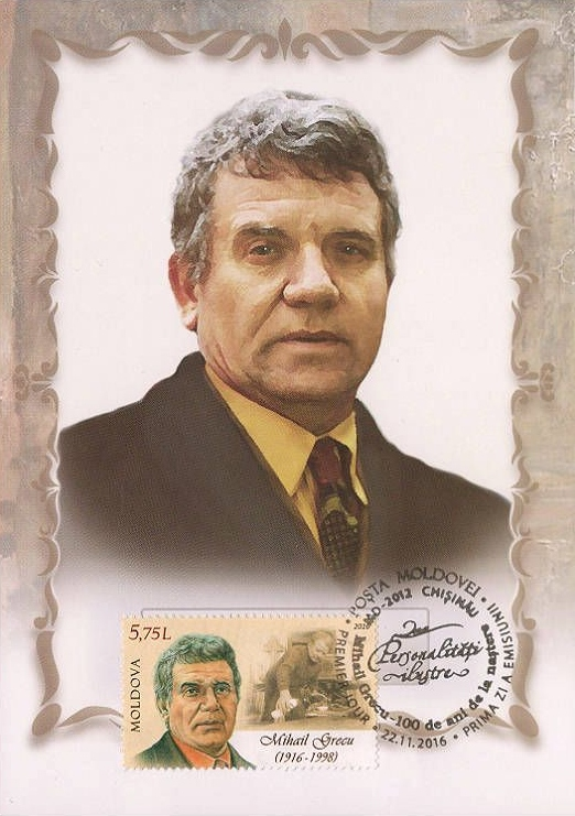 Famous and Eminent Persons II: Mihail Grecu - 100th Birth Anniversary